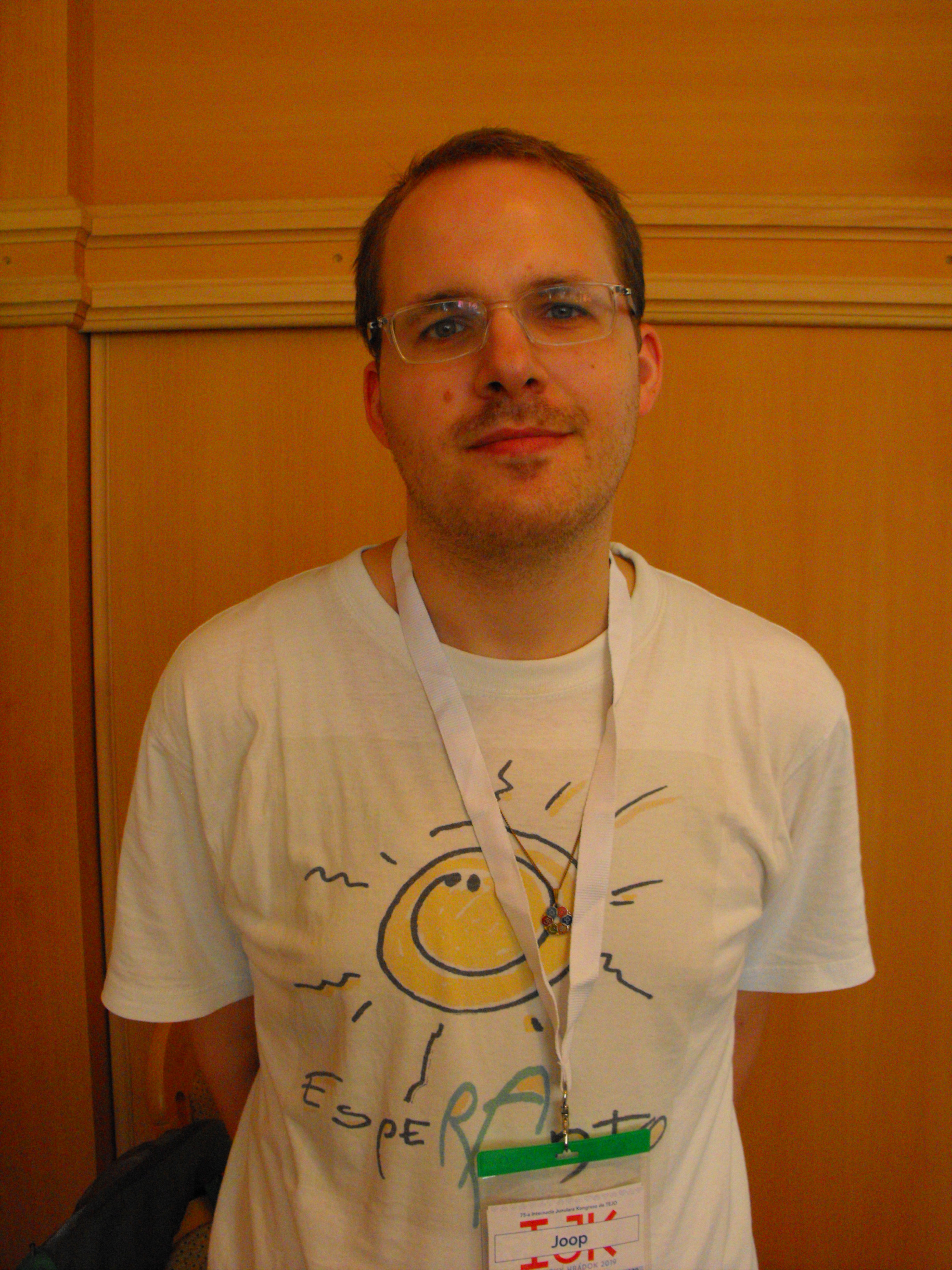 Joop Kiefte during IJK 2019 immediately after being elected as president of TEJO for the term 2019-2020.